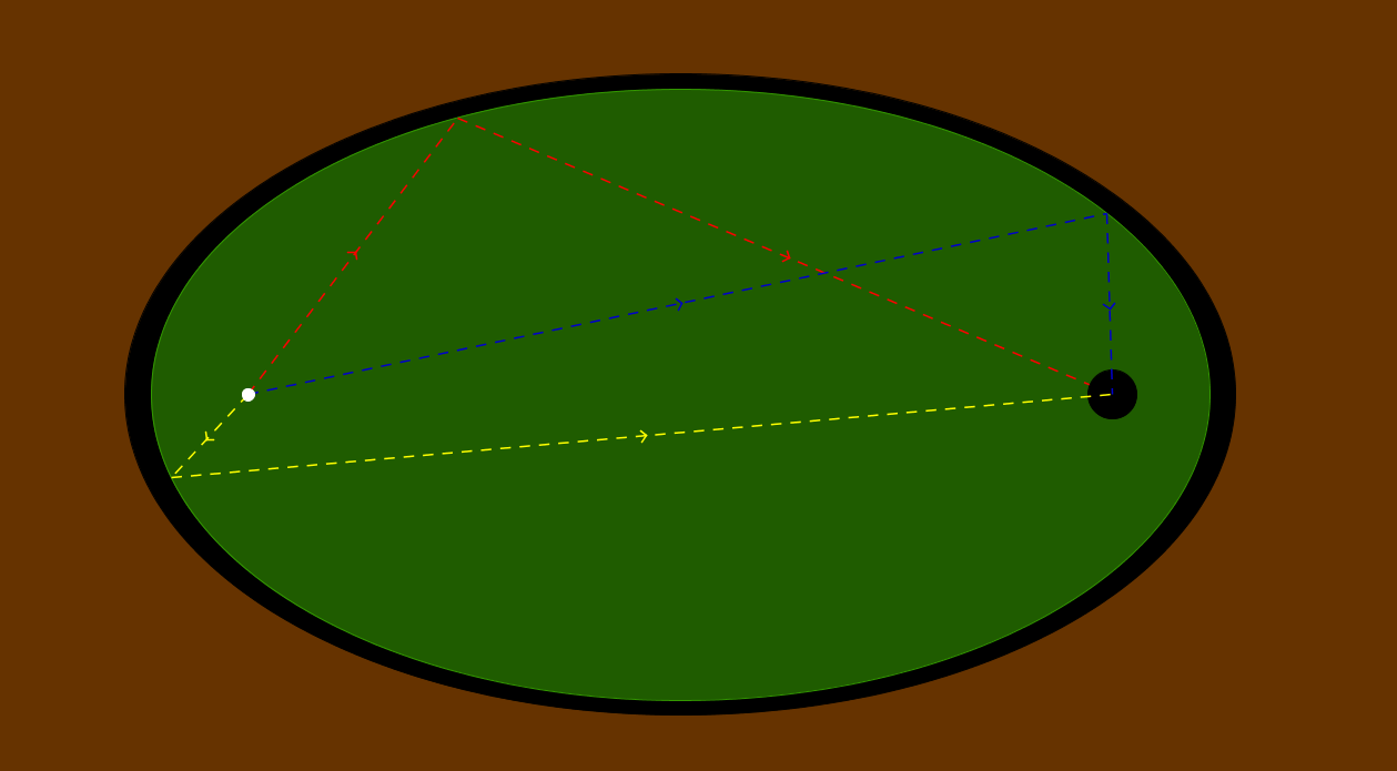 Elliptic billiard.